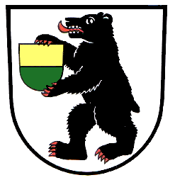 Coat of arms of Merzhausen